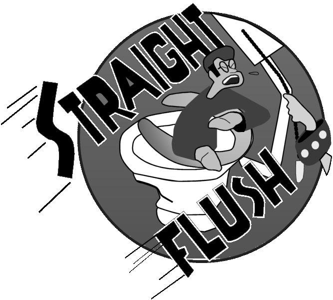 Silverplate B-29 nose art of Straight Flush I drew, not sure the color version was accurate so I've used gray scale to simulate appearance in BW photo. Anynobody 07:23, 27 March 2007 (UTC)